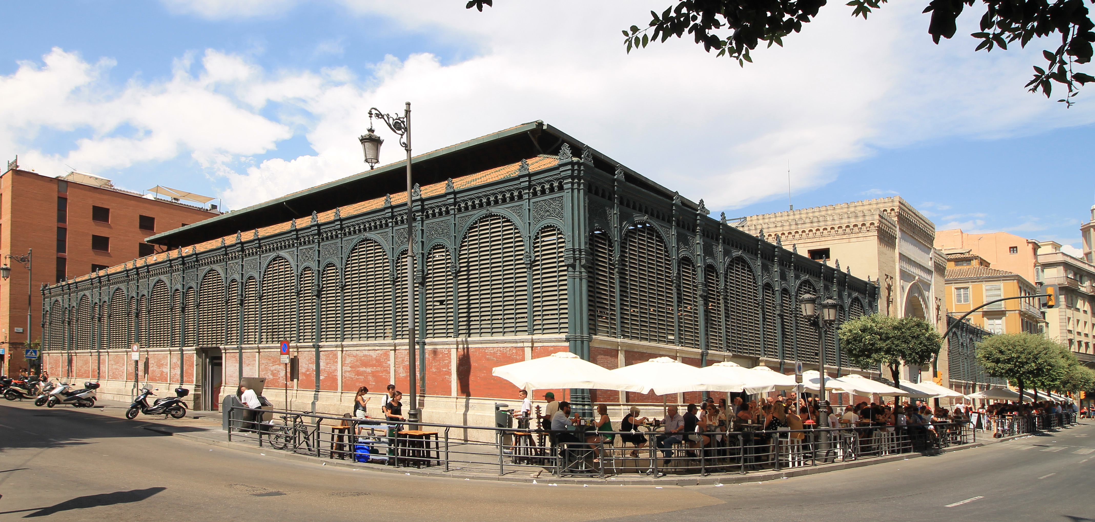 View of Mercado de Atarazanas (a market hall) in Málaga (Spain) from the south angle.